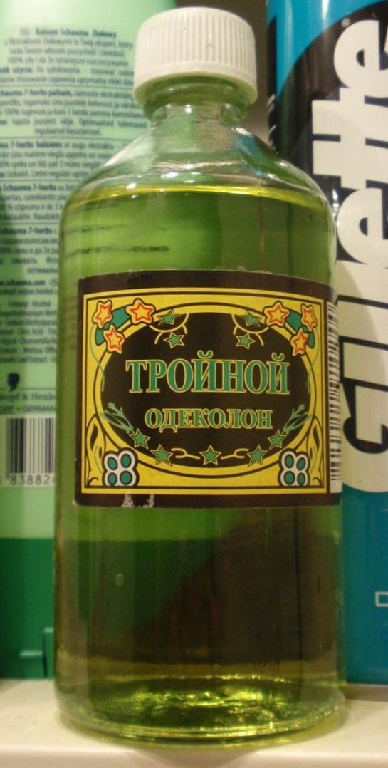 Russian Eau de Cologne Тройной (Troynoy, Triple).